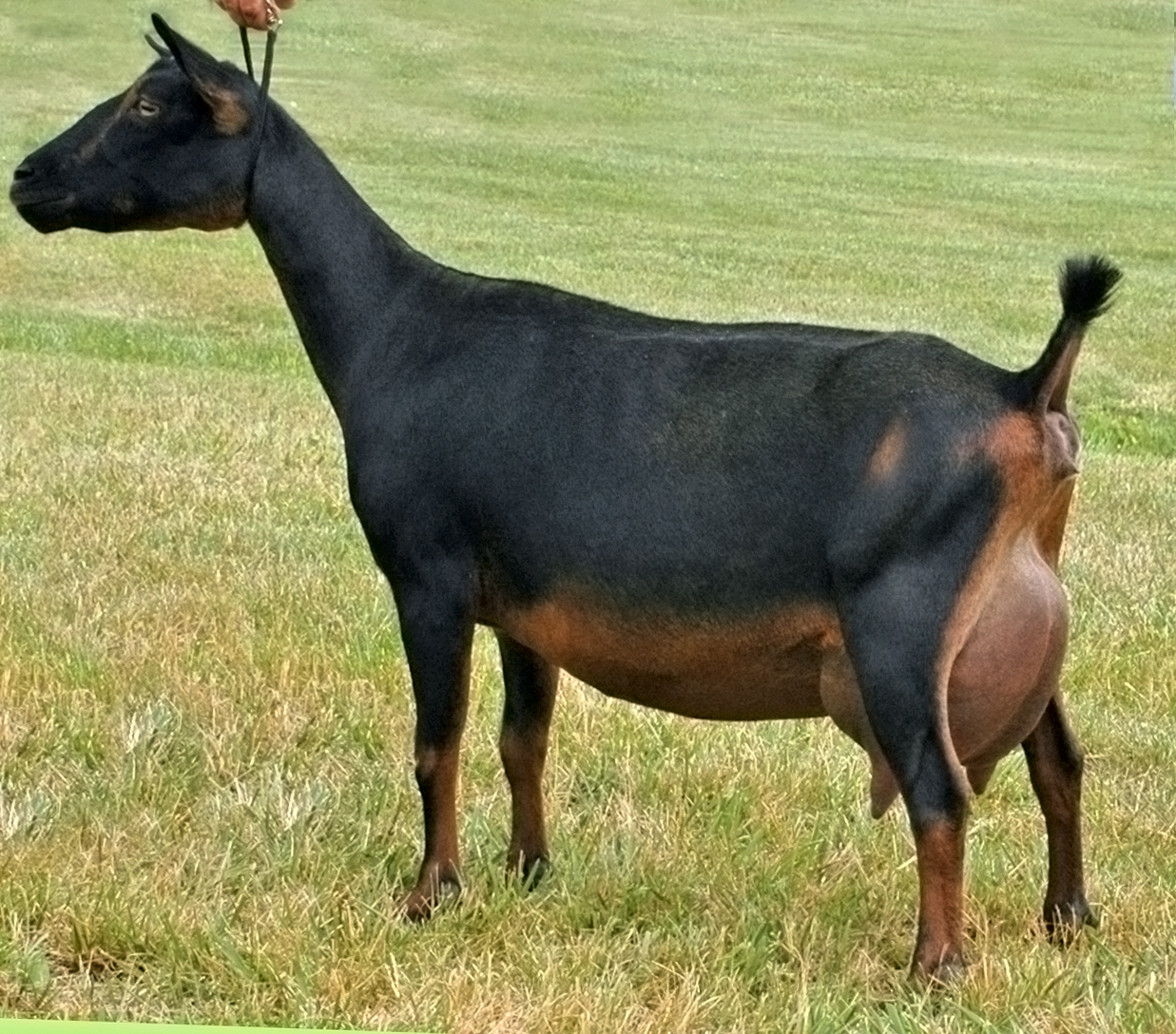 Nigerian Dwarf dairy goat, show clip, in milk